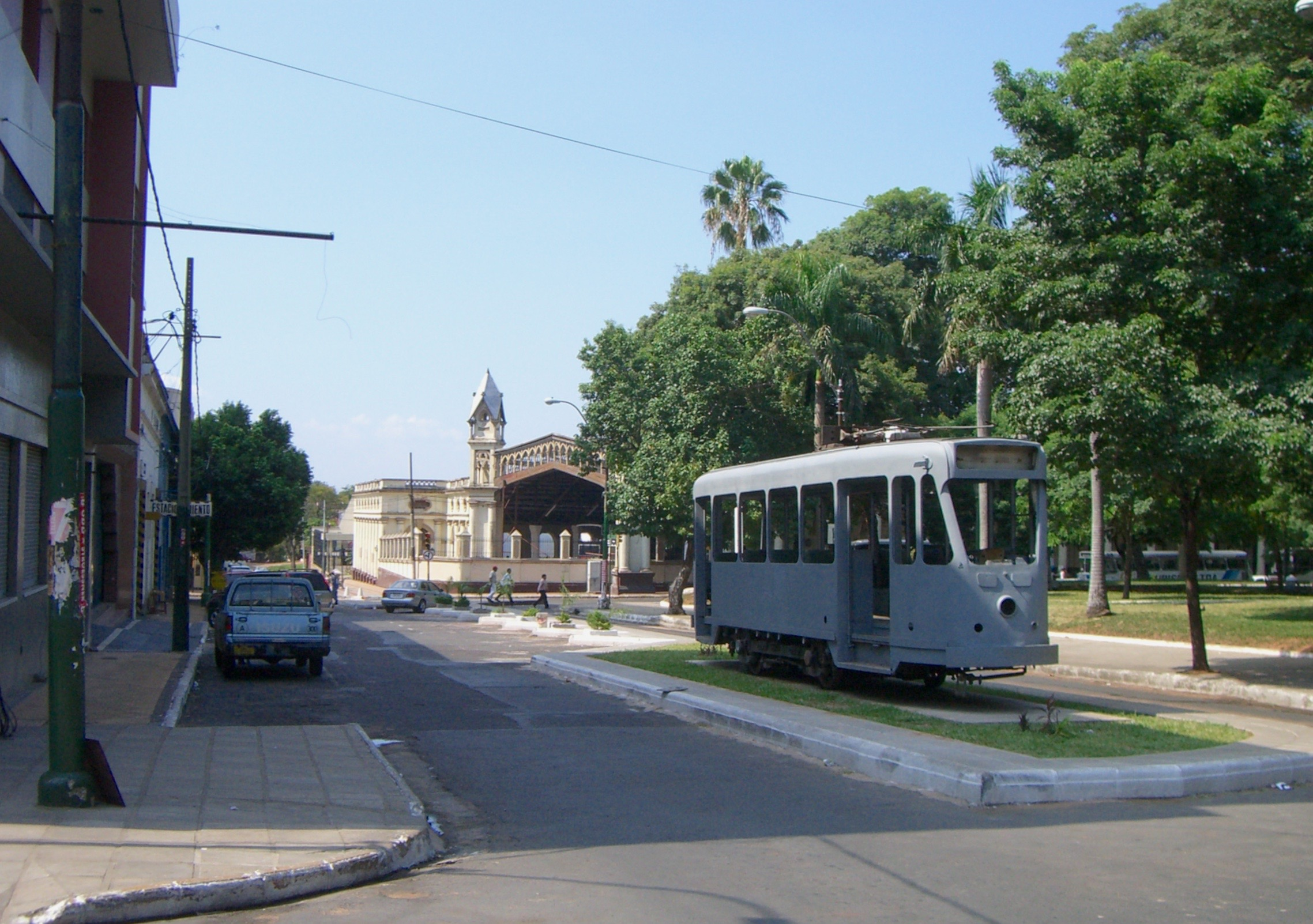 Tram on display by the former train station at Plaza Uruguaya, in Asunción, Paraguay. Asunción's last tram line (route 5) closed in 1995. The last trams in use came secondhand from Brussels, Belgium in the late 1970s and early 1980s. The tram in the photo (no. 9006) was placed on display here in 2005, but after being vandalized in 2007, it was moved to another location.